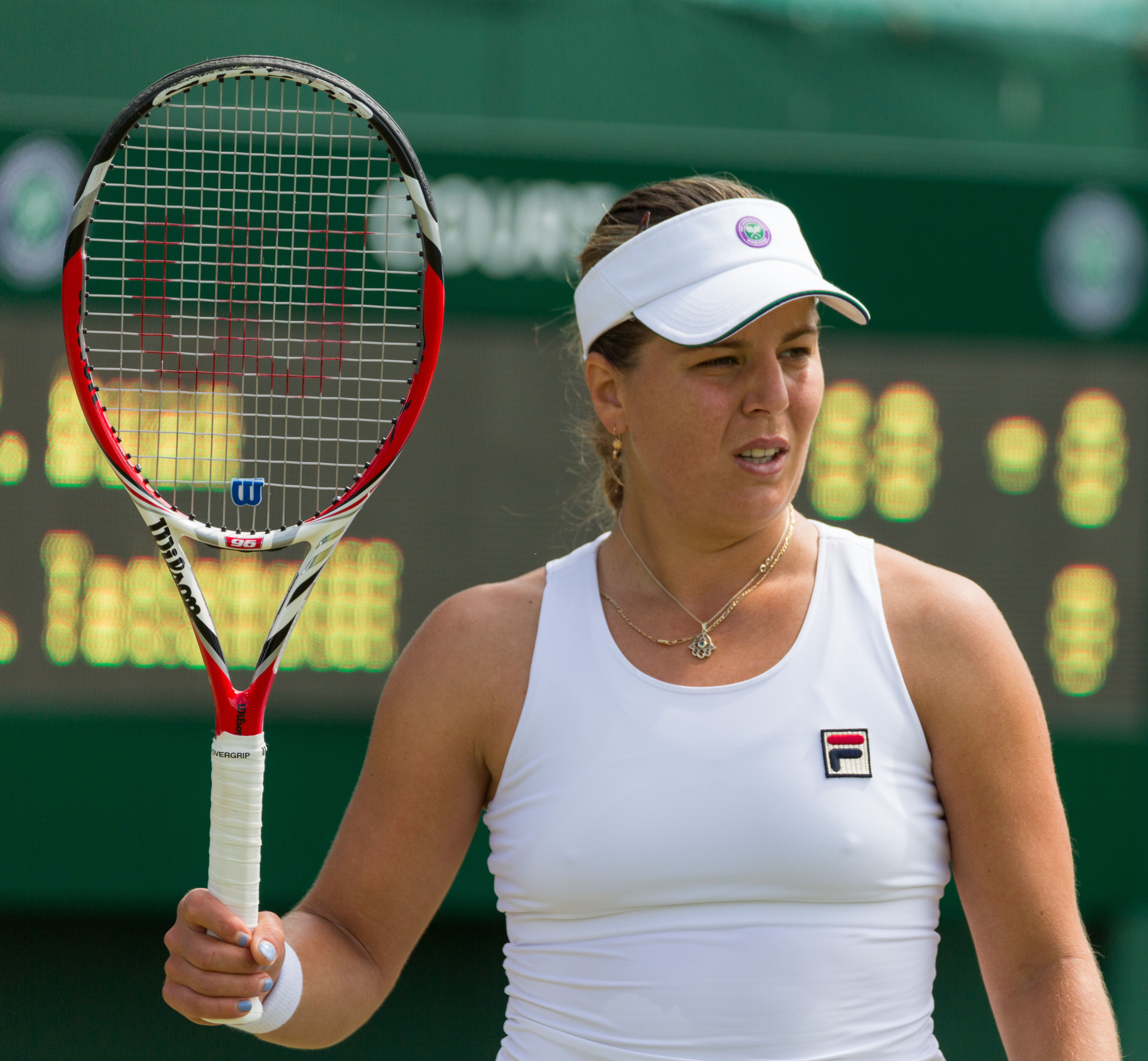 Anna Tatishvili competing in the third round of the 2015 Wimbledon Qualifying Tournament at the Bank of England Sports Grounds in Roehampton, England. The winners of three rounds of competition qualify for the main draw of Wimbledon the following week.